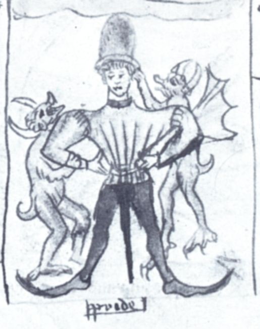 Illustration of pride at folio 47v of British Library Additional 37049, an illustrated Yorkshire Carthusian Religious Miscellany. This illustration has been described as follows: In the lower half of the picture pride is represented in the form of a young man dressed in finery. He is assailed by two devils. (From p. 67 from the cited source.) In the fifteenth-century BL MS Additional 37,049 f. 47v a miniature illustrating pride depicts a youth in a tall hat, blue puffed jacket, red breeches, long pyked shoes, with a sword, seized by two devils. Quote from: Robert Easting: St Patrick's Purgatory: Two versions of Owayne Miles and The Vision of William of Stranton together with the long text of the Tractatus de Purgatorio Sancti Patricii, Oxford University Press, 1991, ISBN 0-19-722300-1, p. 224, note SR166ff, SA170ff. [..] this character's garments are of complex cut and elaborate tailoring; the hose being shaped to fit even around the knees, the chest improved and emphasised by padding, and with unnaturally wide shoulders. His tightly belted waist is so narrow that it suggests corseting. [..] With his wide shoulders and puffed sleeves Pride is manifestly guilty of the charge levelled at all those men of fashion from the fourteenth to the sixteenth centuries: that of distorting the image of God and presuming to improve on his handiwork. Quote from: Samantha Mullaney: Fashion and Morality in BL MS Add. 37049, out of John Scattergood (ed.): Texts and their contexts: Papers from the Early Book Society, Four Courts Press, Dublin 1997, ISBN 1-85182-209-7, p. 76. Please note that the original drawing is colored but that all pictures in the cited book are in grayscale.